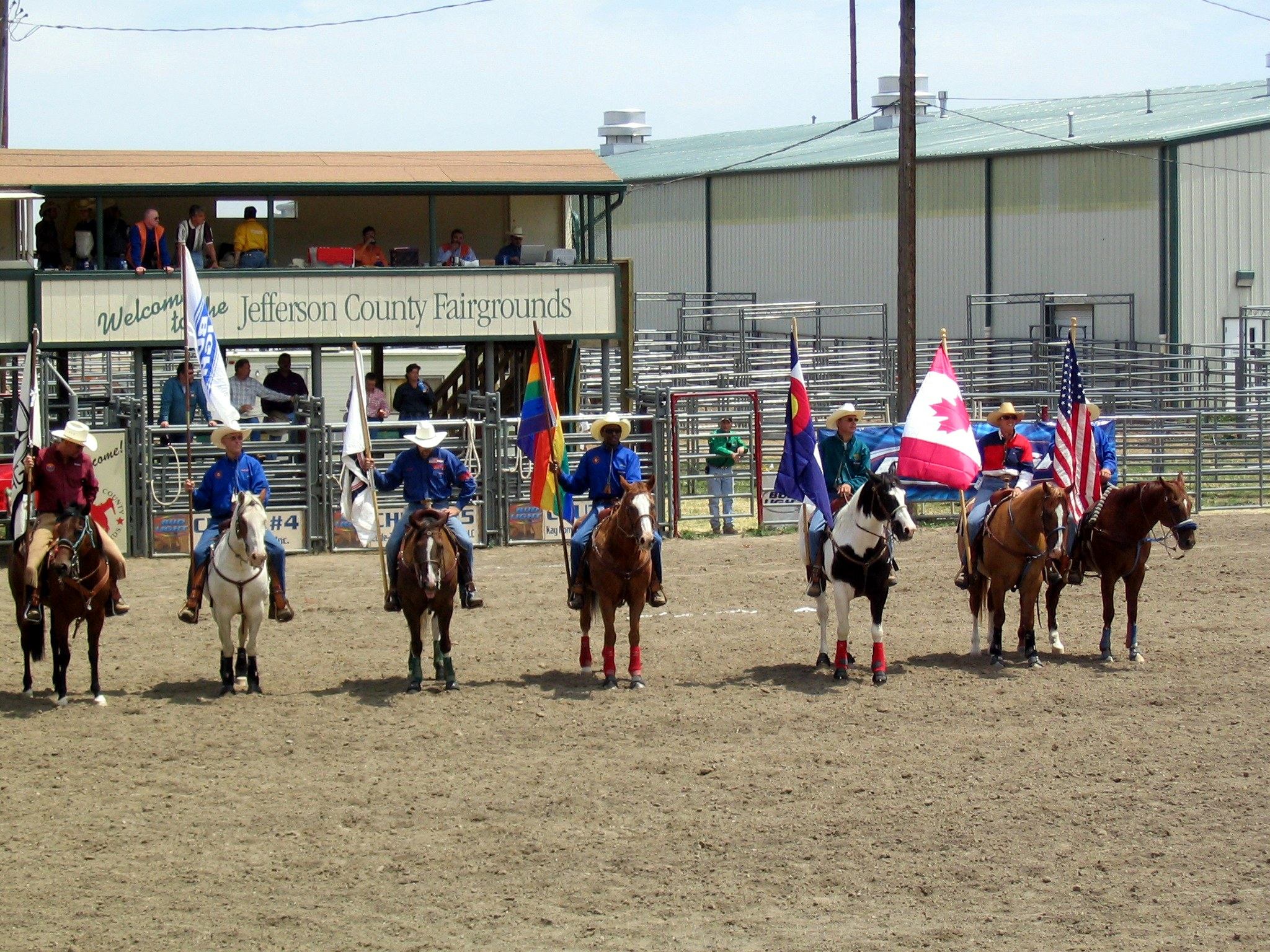 Photo from the Grand Entry at the Rocky Mountain Regional Rodeo 23 (July 2005), put on by the Colorado Gay Rodeo Association (CGRA